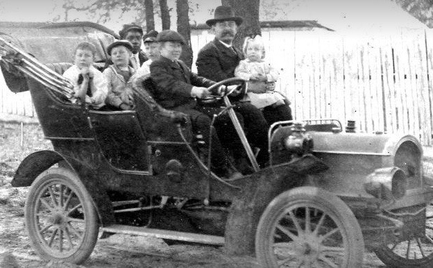 Sitting in fathers arms being driven by brother Ervin. Martha Priscilla Shaw (August 29, 1904 – February 9, 1981) was an American educator and politician in the state of South Carolina